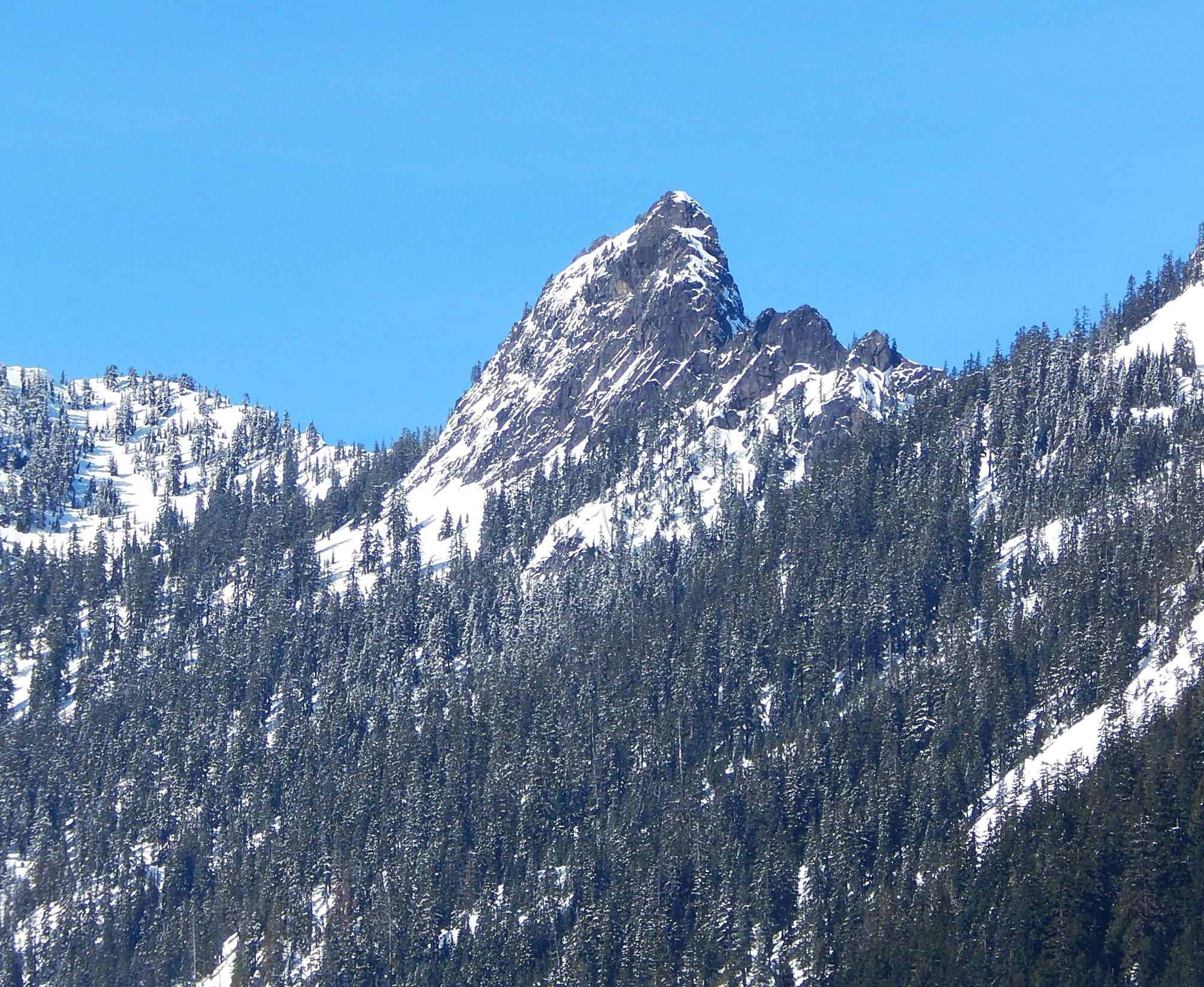 "The Tooth" in the Cascade mountain range, near Snoqualmie Pass in Washington state.